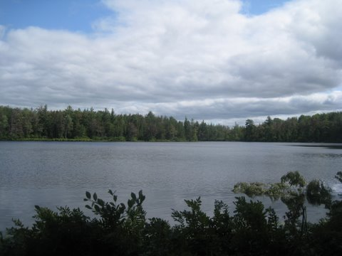 Looking at Lake Five from the north